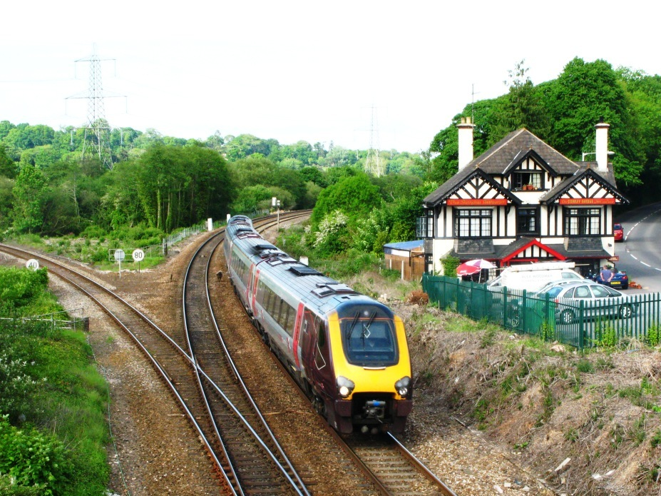 A CrossCoutry class 220 passes Cowley Bridge Junction in Devon, England with a train towards Plymouth.